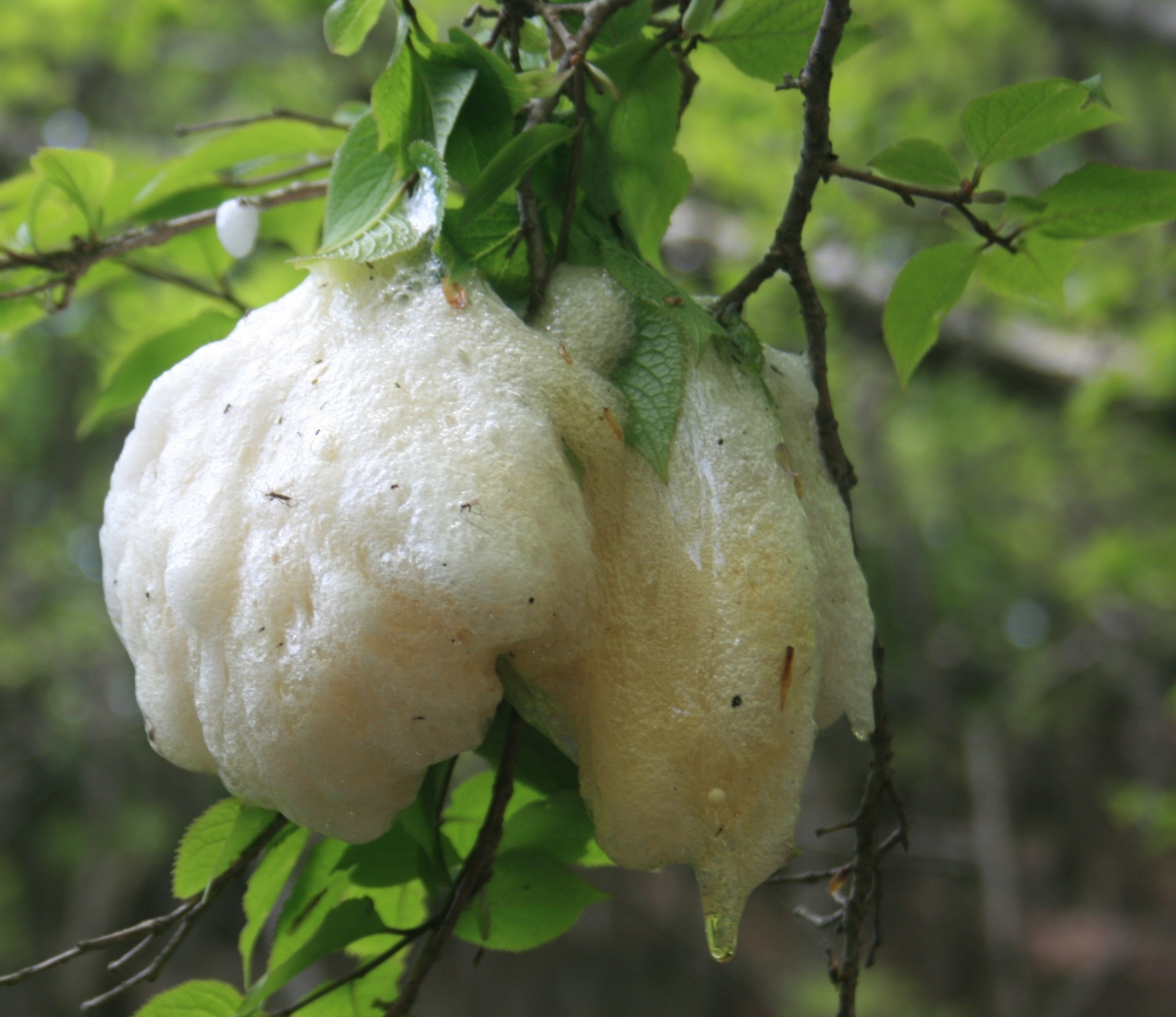 Eggs of Rhacophorus arboreus in Mount Ryu of Suzuka Mountains, Japan.